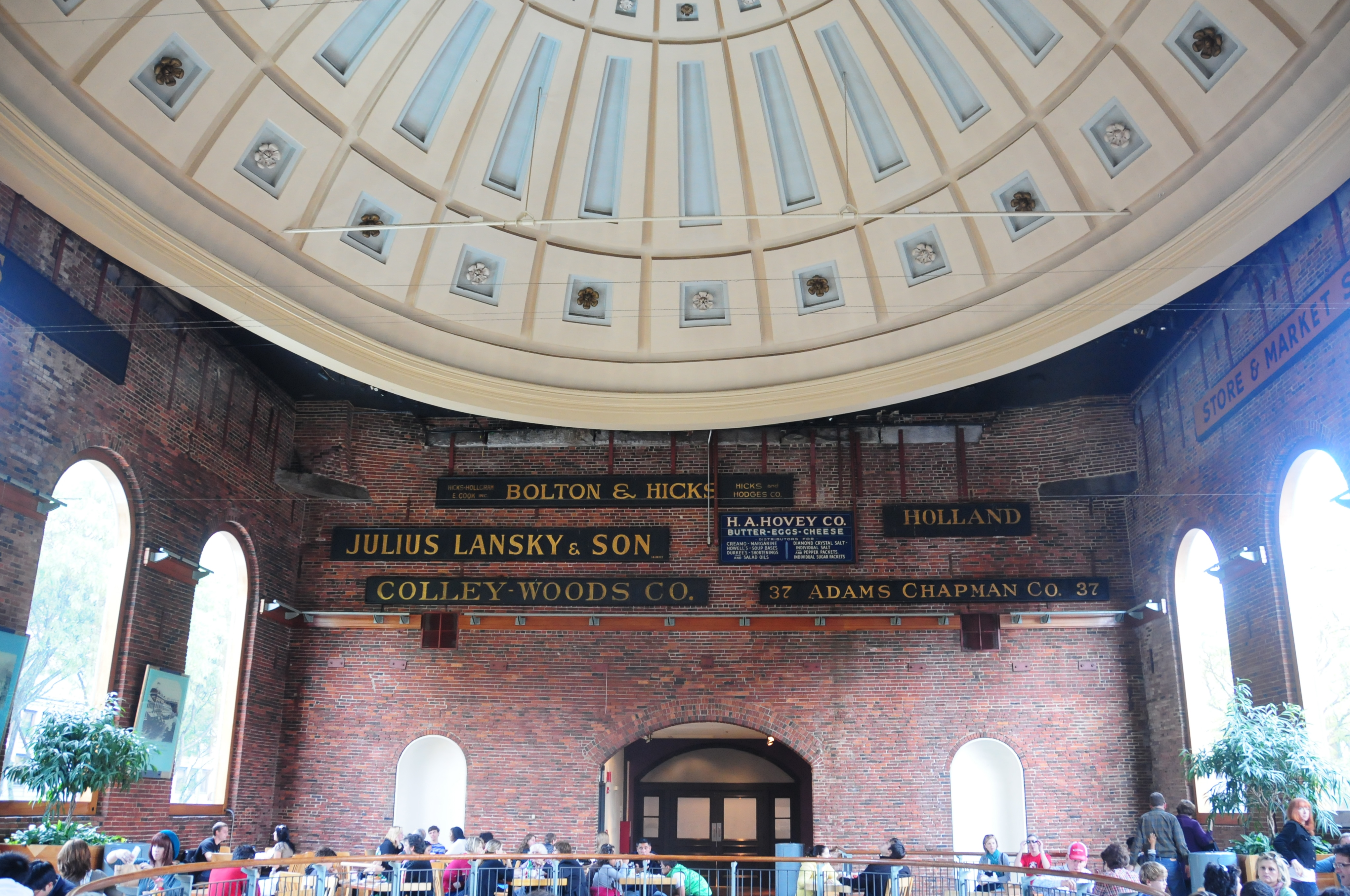 Dome Inside the Quincy Market in Boston. Some of the old business names are displayed on the wall